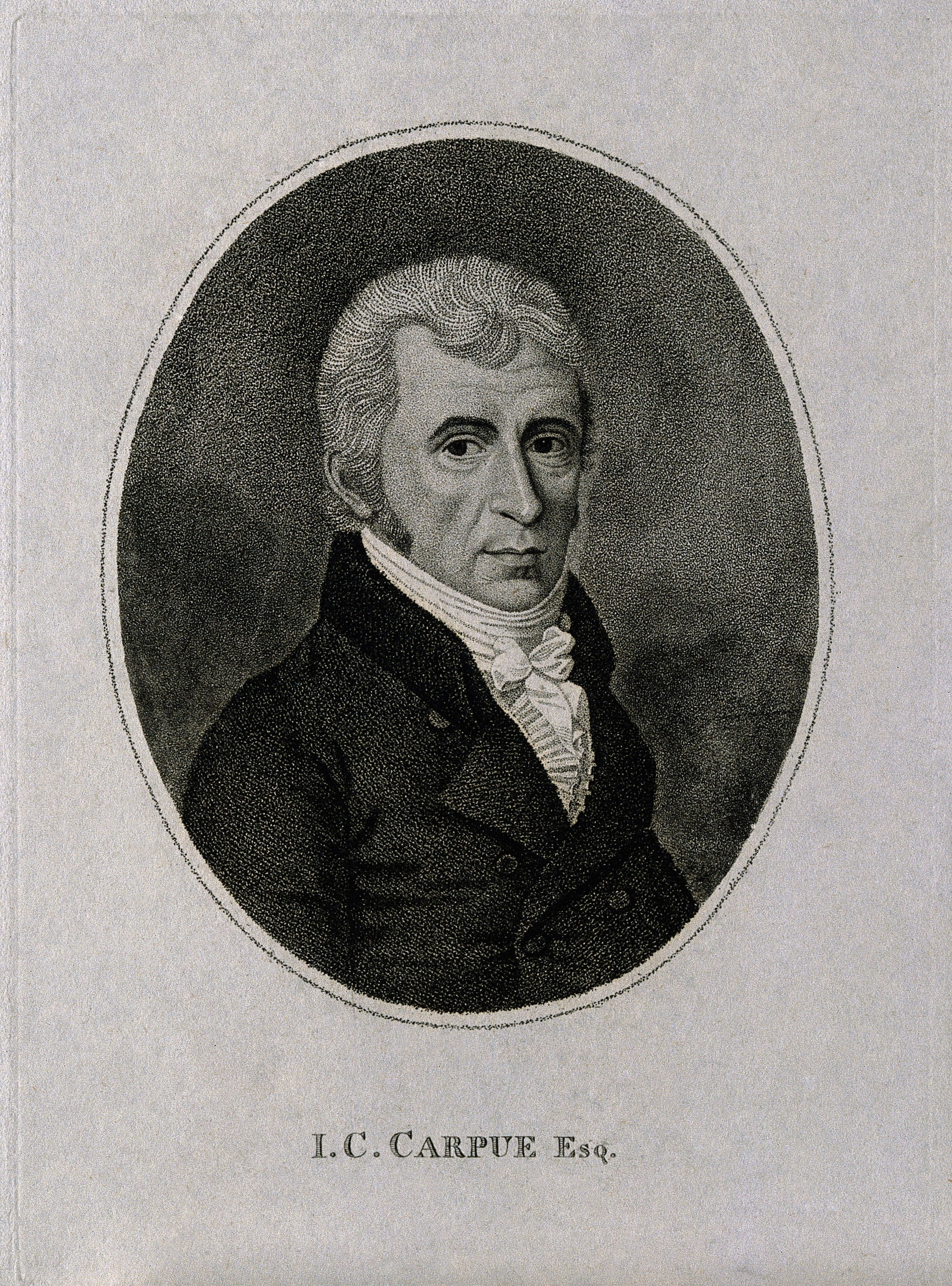 Joseph Constantine Carpue. Stipple engraving. Iconographic Collections Keywords: portrait prints; carpue, joseph constantine, 17; stipple prints; Joseph Constantine Carpue